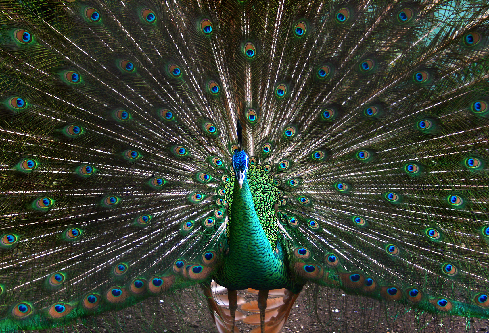 Today I was privilleged to have 2 peacocks show off their feathers to me. One was in the open and would only give me a side on view. This one was behind wire mesh and was quite happy to give me a full frontal. Unfortunately I couldnt fit him all in so his missing his legs. He's still pretty spectacular even though he is legless I have also noticed that in the few photos I managed to get of him his neck & breast feathers look green not blue, I dont know if this was because of the light shining through the roof or whether this was his natural colour.The peacock that I took a photo of outside certainly had a blue neck View On Black